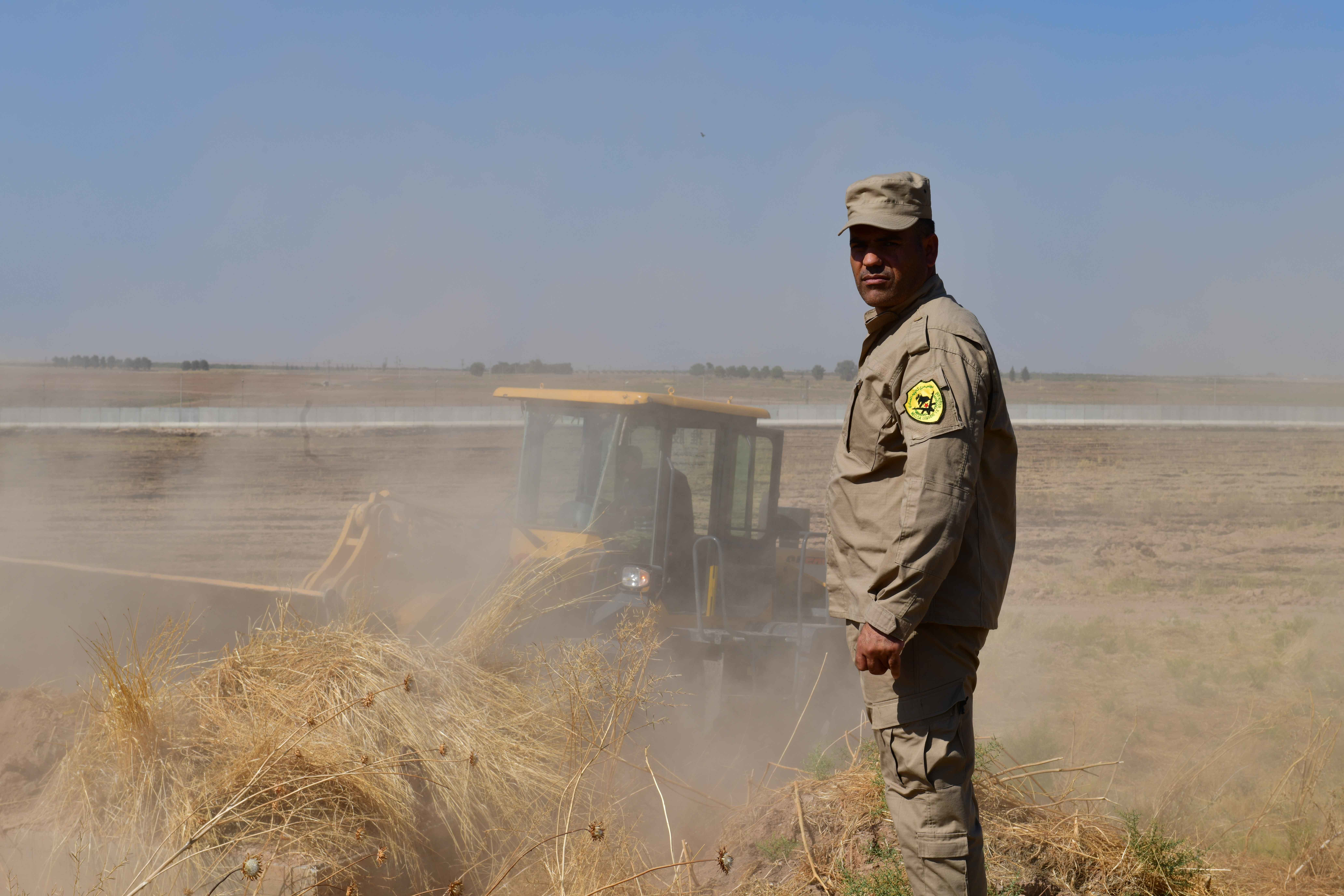 A fighter, displaying the insignia of the SDF's Sere Kaniye military council oversees the destruction of fortrifications along the Syria-Turkish border as part of the Northern Syria Buffer Zone Agreement